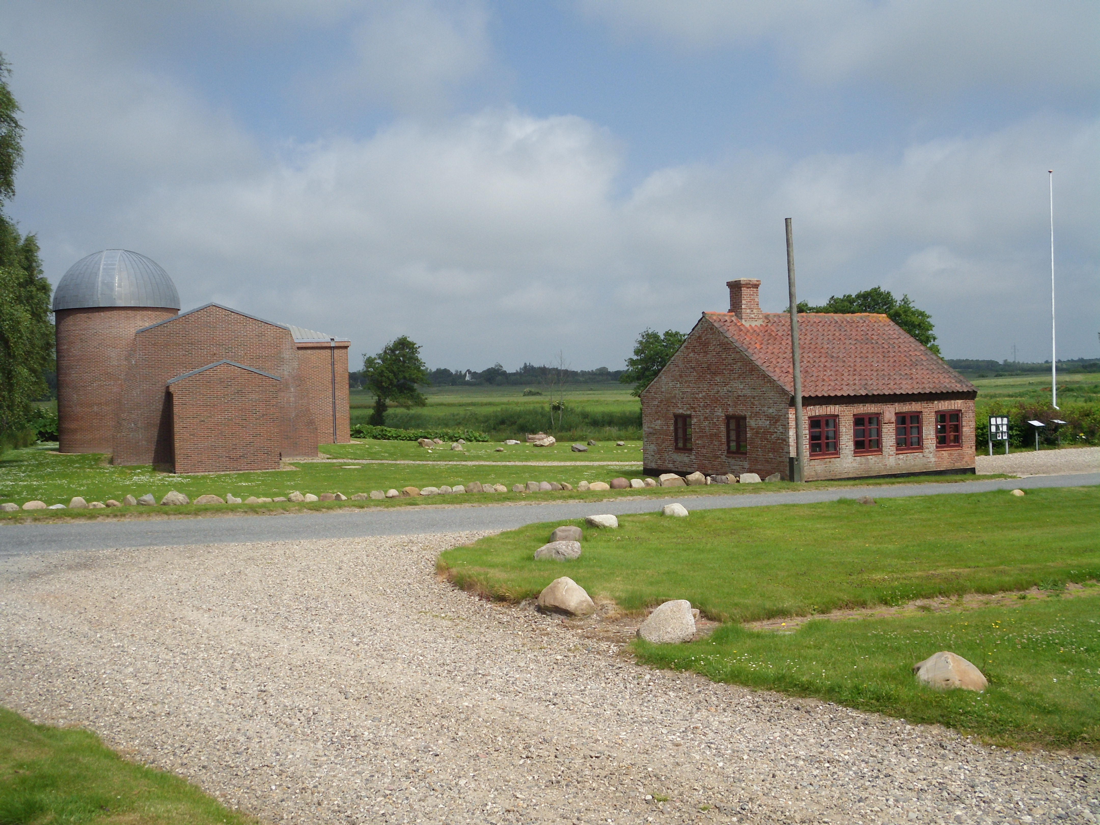 Two buildings within the larger complex of Skærum mølle outside Vemb, Denmark. Both presently belong to Folkeuniversitetet and are used for scientific and educational activities. The one to the left is a modern astronomical observatory; the one to the right is a 19th century "brick house" used for exhibitions. See also the official website of this center.